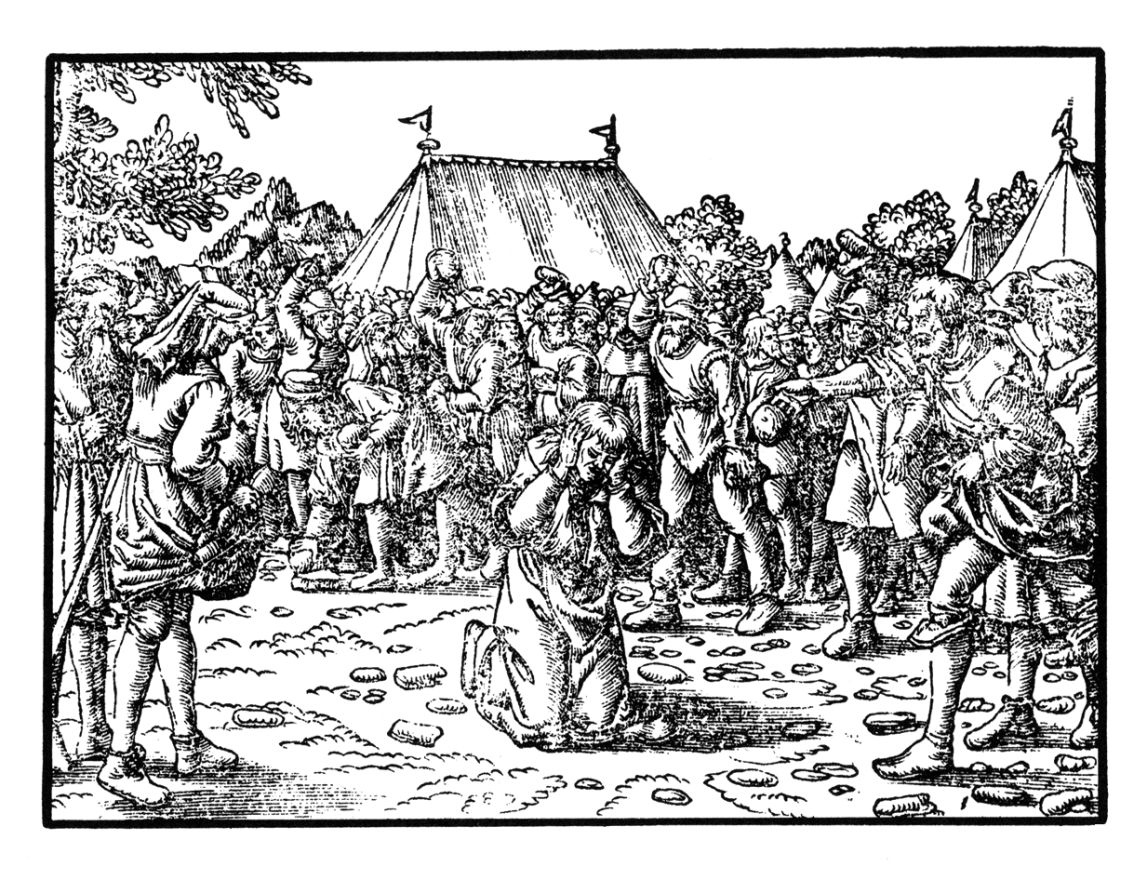 Stoning of a violater of the sabbath. (Numbers 15).